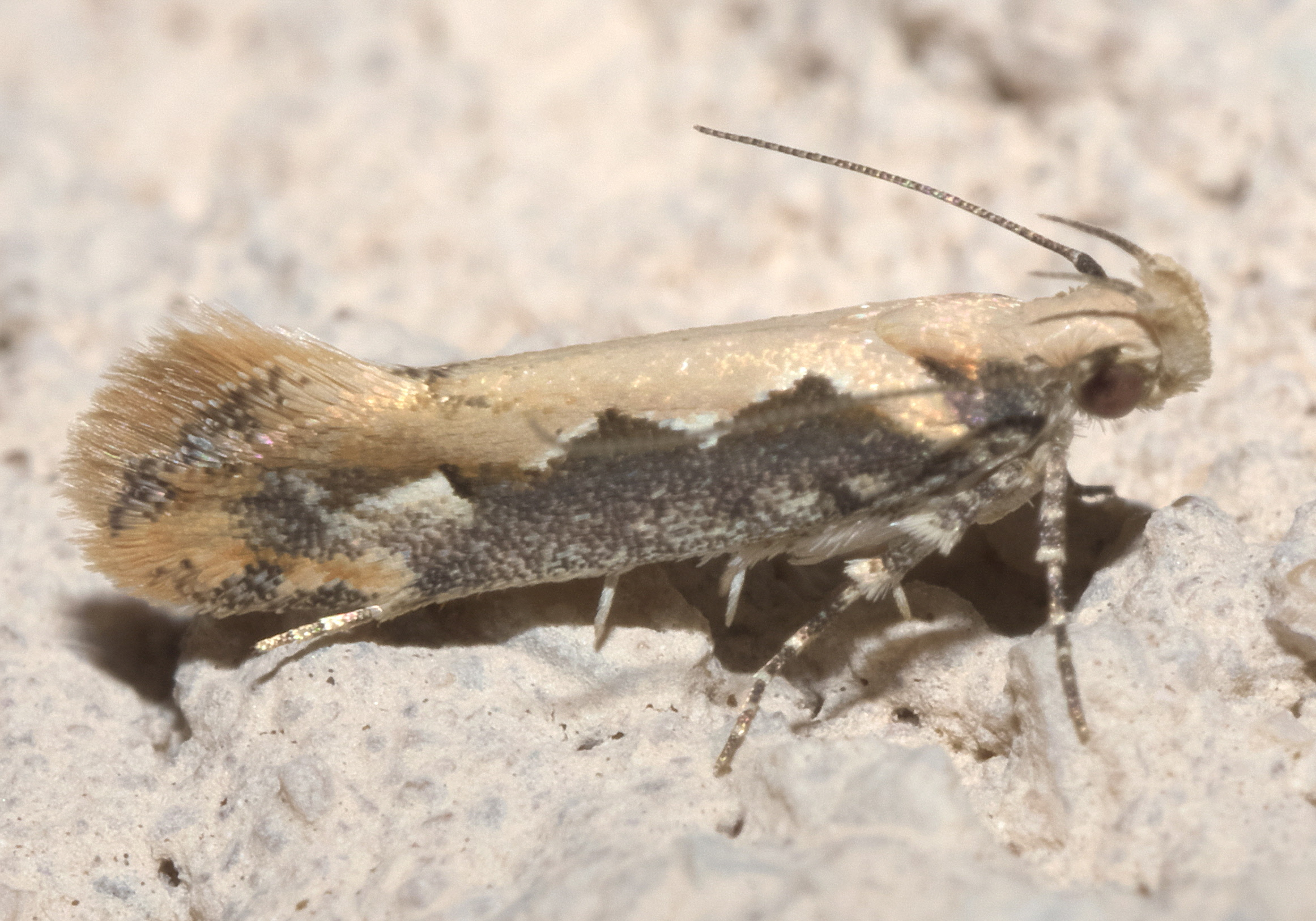 Ornativalva erubescens, Family: Twirler Moths, Introduced species., Size: 7.4 mm, ID Confidence: 98